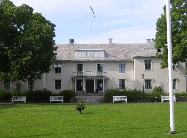 Main building of Ingesund Folk High School in Arvika, Sweden